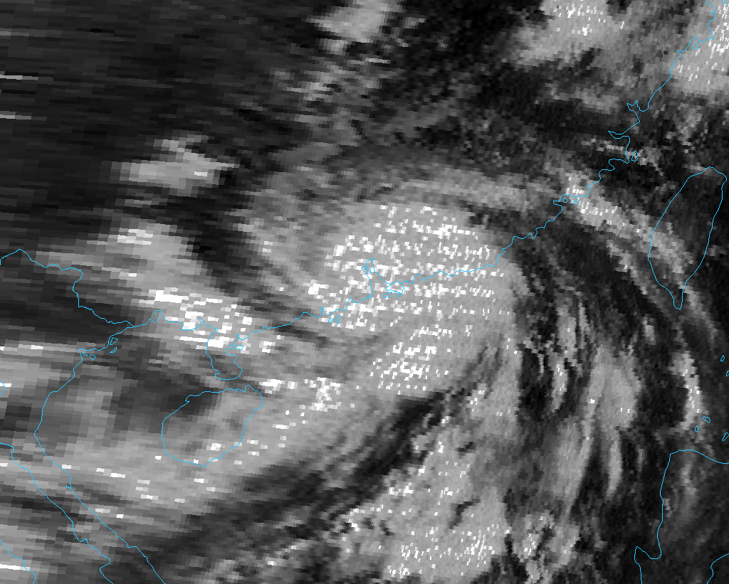 Infrared satellite image of Typhoon Sally moving inland over southeastern China and Hong Kong at 15:54 UTC on September 10, 1964, as imaged by the High Resolution Infrared Radiometer instrument onboard NASA's NIMBUS 1 satellite on its 198th orbit.